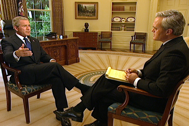 Scott Pelley Interviews George Bush in Oval Office